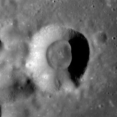 Concentric crater Firmicus C on the Moon, on northwestern shore of Mare Undarum. Its size is 15.0×13.3 km. It is not included in the list of concentric craters by Wood, 1978. Photo by Lunar Reconnaissance Orbiter, made with Wide Angle Camera on 5 June 2011 from altitude 45 km. Sun elevation is 19.3°. Width of the photo is 25 km, north is approximately up.